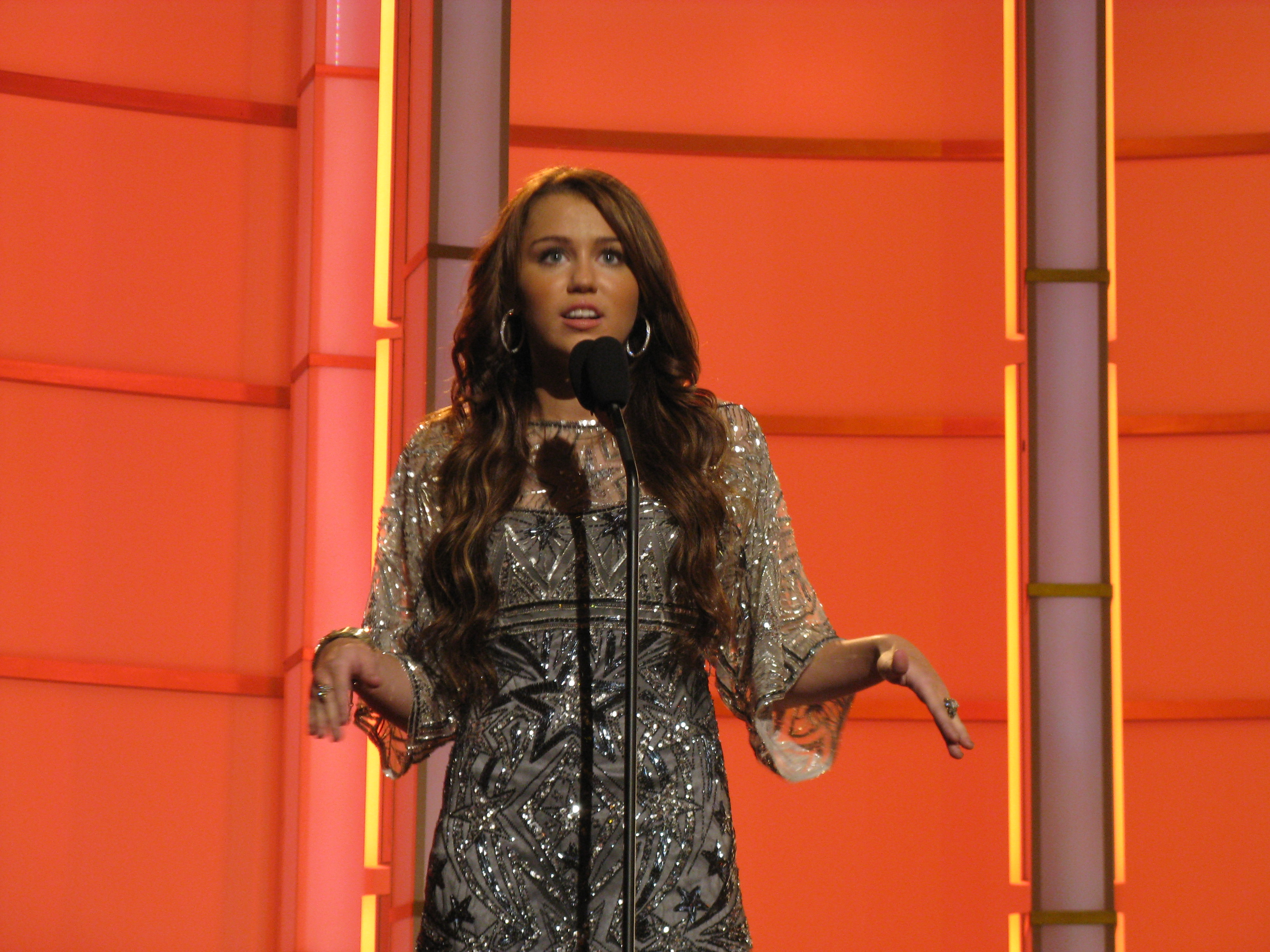 Miley Cyrus on stage at Fashion Rocks 2008